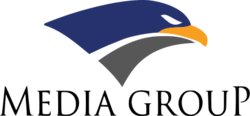 Media Group logo in January 2020